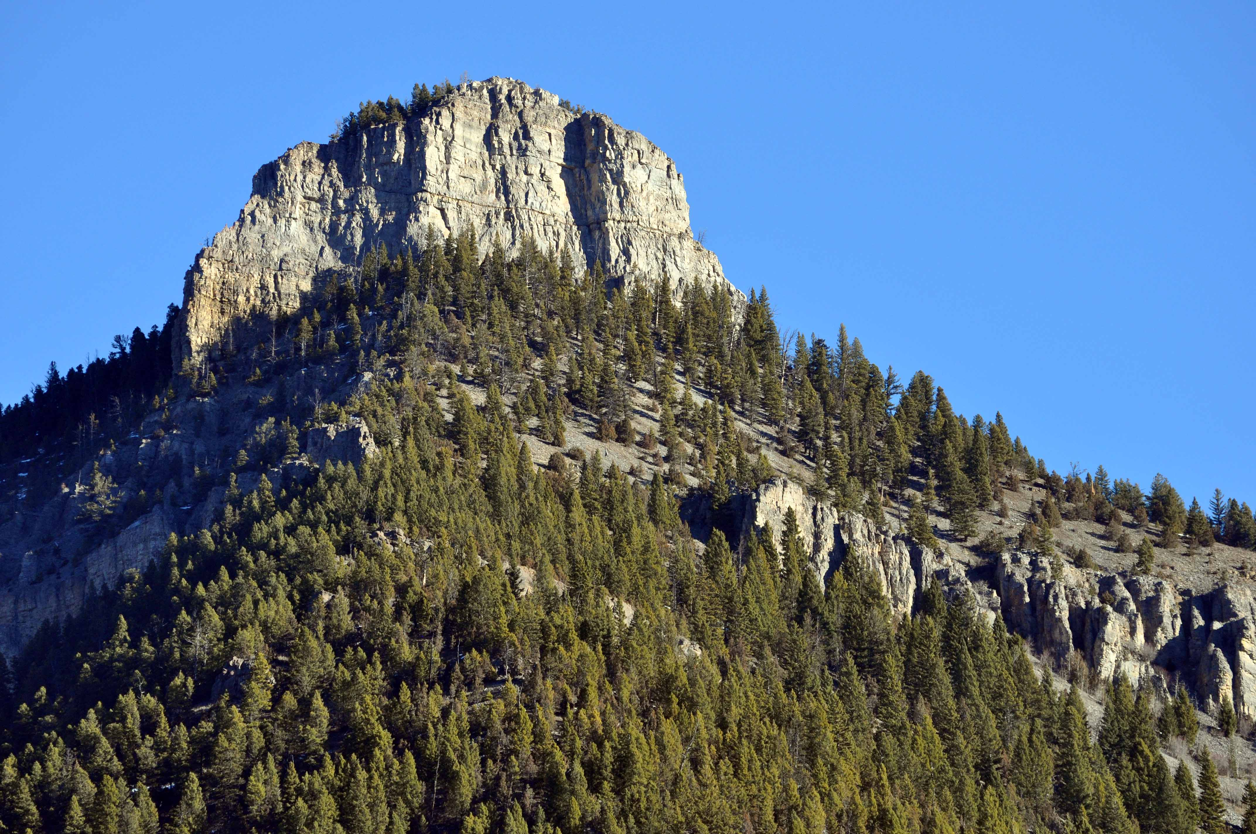 Storm Castle Gallatin Range February 2015